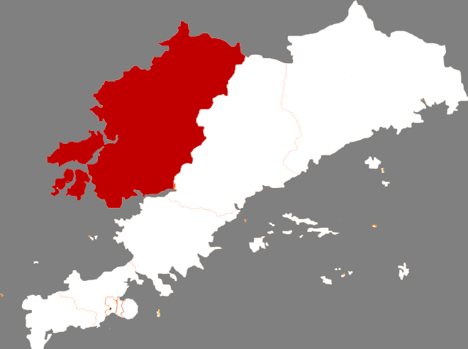 Location of Wafangdian county-level city in Dalian City, China